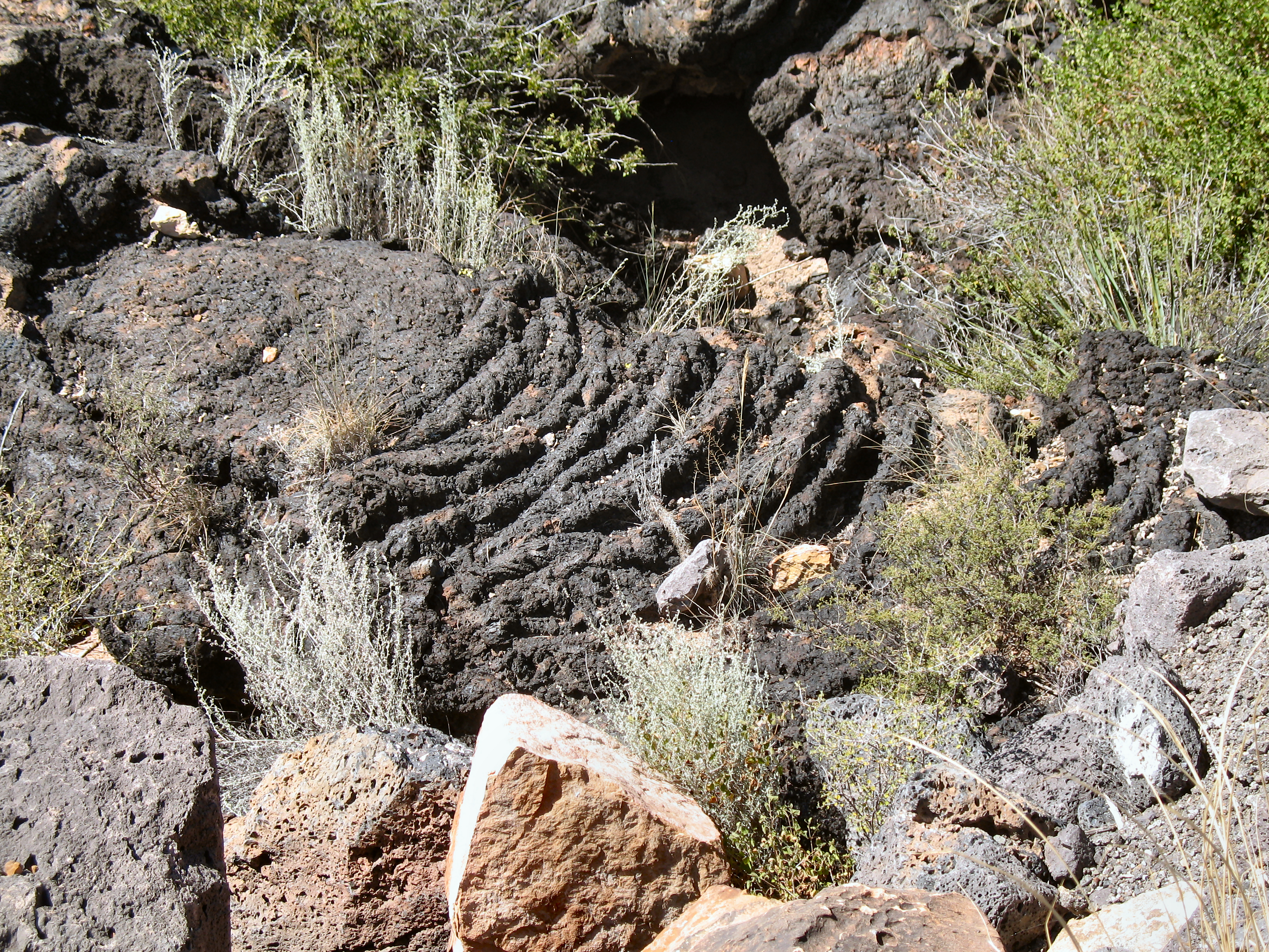 A close-up view of laval flows in Valley of Fires Recreation Area, Carrizozo Malpais, Carrizozo, NM, USA